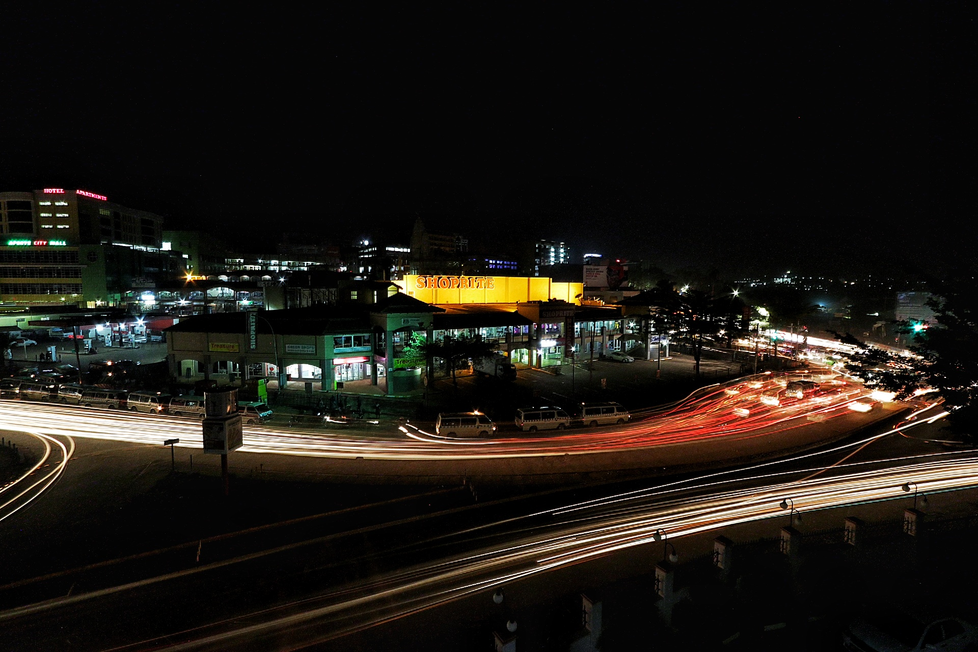 The busy streets of Kampala, Uganda. This is an image of "African people at work" from Uganda